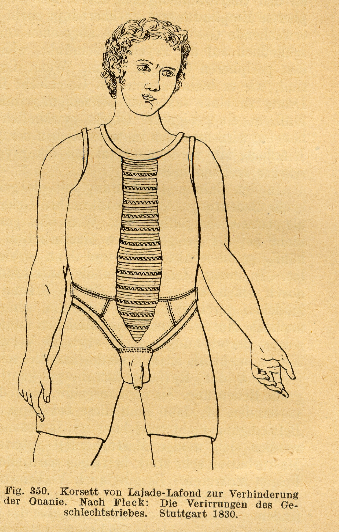 In the book: Albert Moll, Handbuch der Sexualwissenschaften, Verlag Von F.C. Vogel, Leipzig 1921, p. 627.